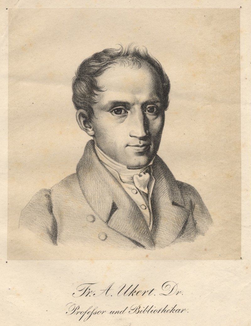 Zeitgenössisches Portrait, Lithographie